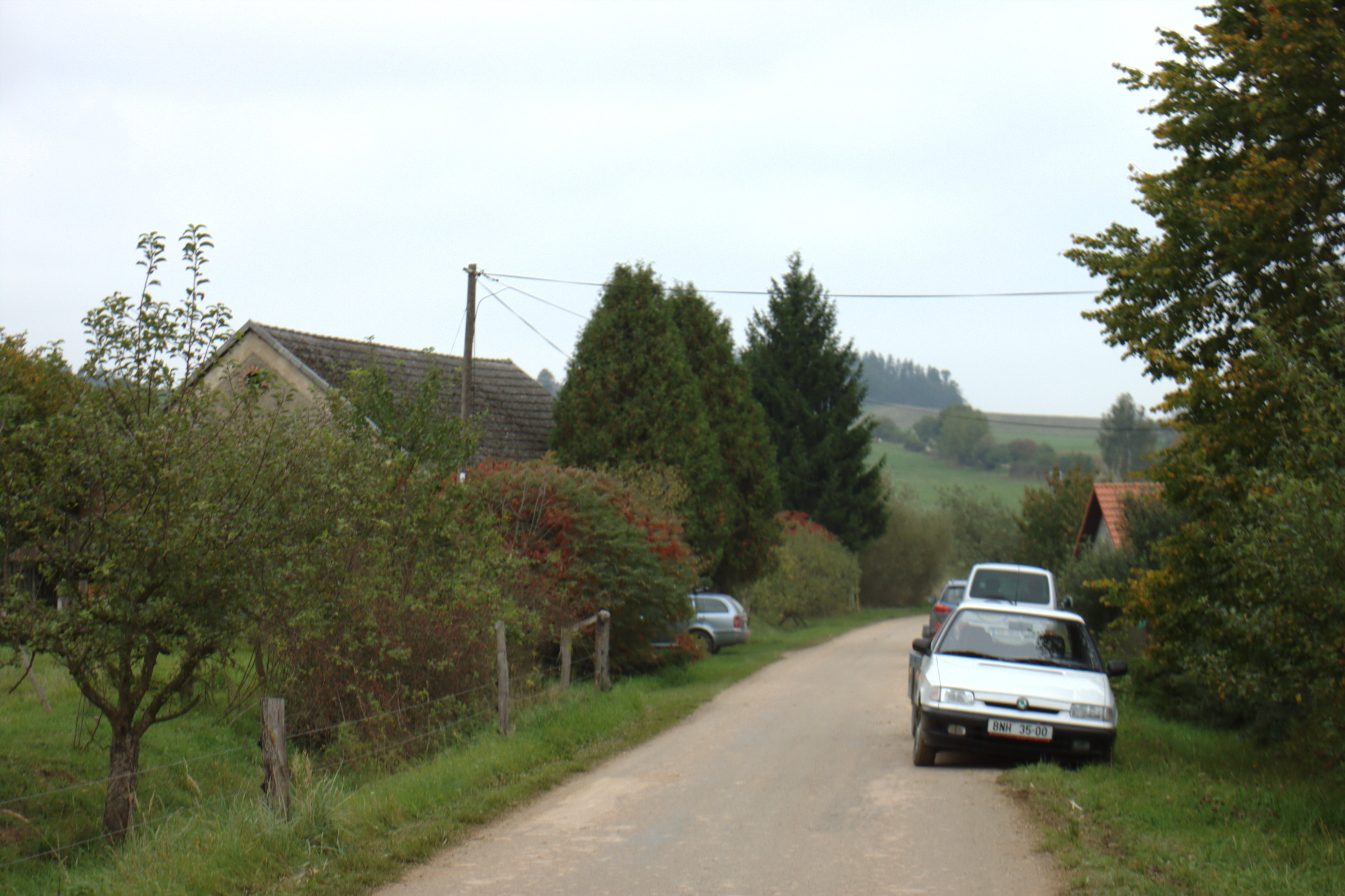 Main road in the village of Vlastišov, Central Bohemian Region, CZ